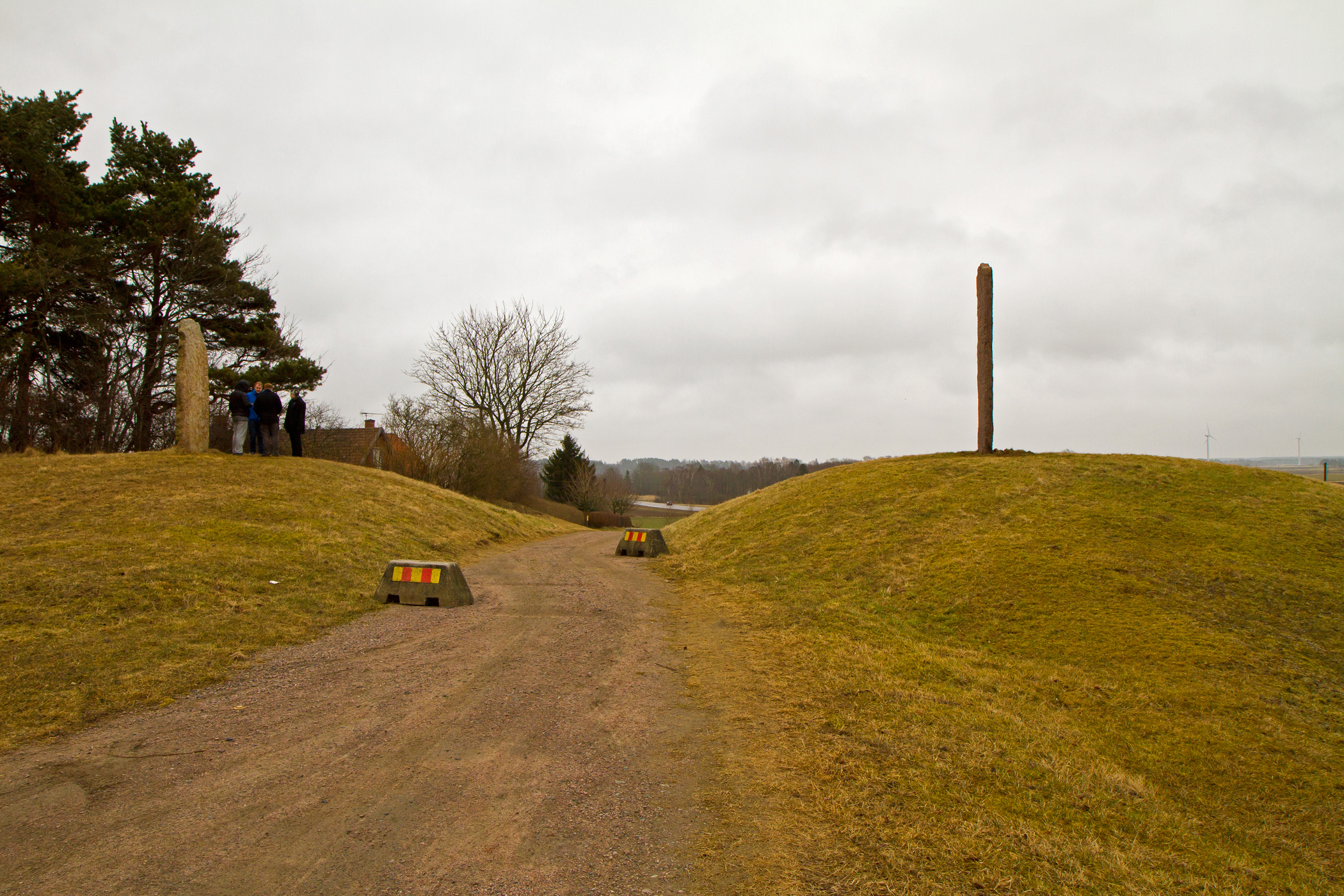 The two Källby runestones Vg 55 and Vg 56 facing each other.